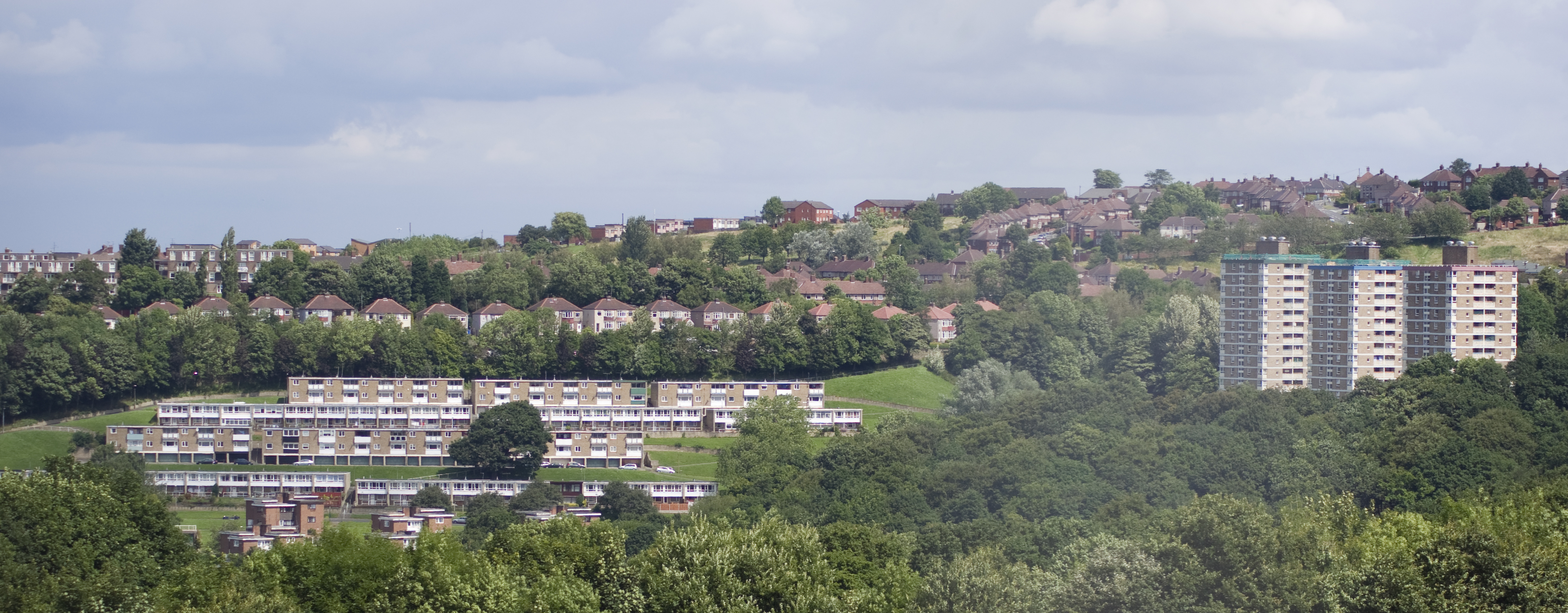 View from just off Lees Hall Road near the golf club overlooking Gleadless Valley. The view was obscured by a steel fence, hence the blurred obstuction to the right of the photo.